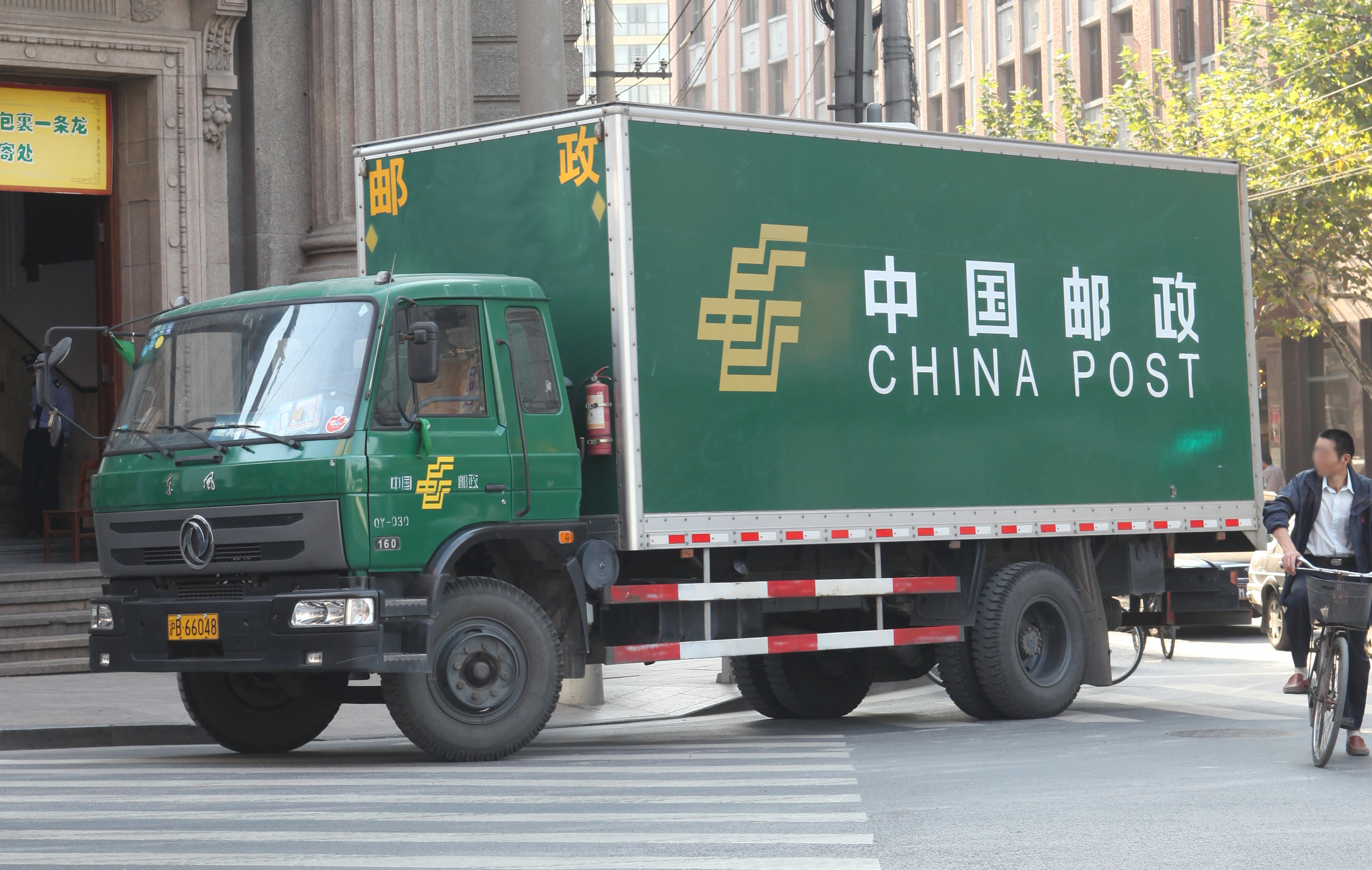 Dongfeng truck of China Post QY-030.